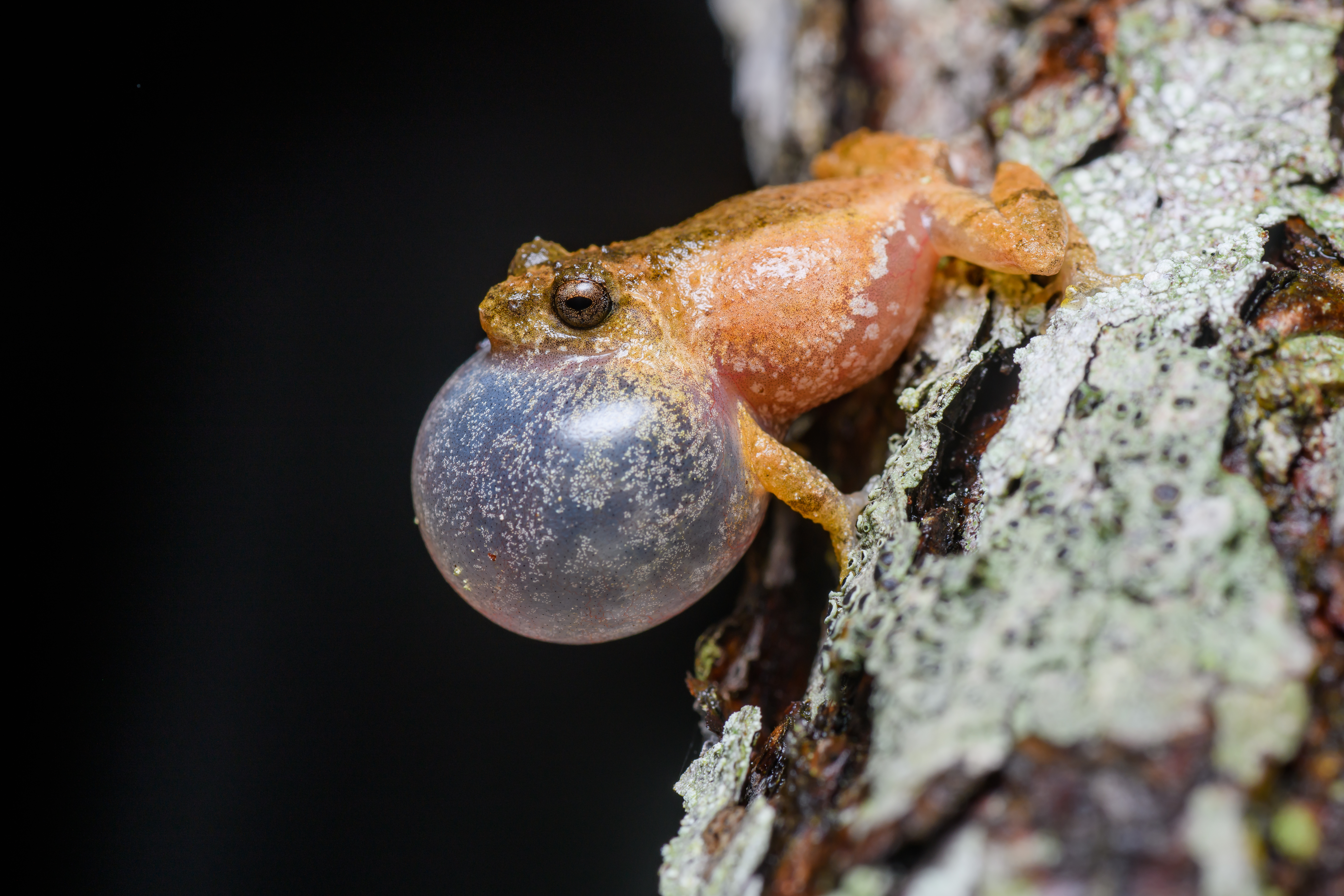 Raorchestes parvulus, Dwarf bush frog (male) - Phu Kradueng National Park. Photo by Thai National Parks